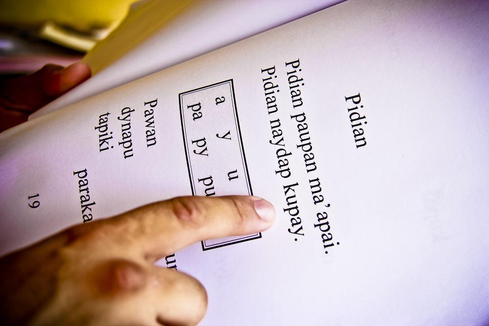 Book in what appears to be Wapishana (Wapixana)